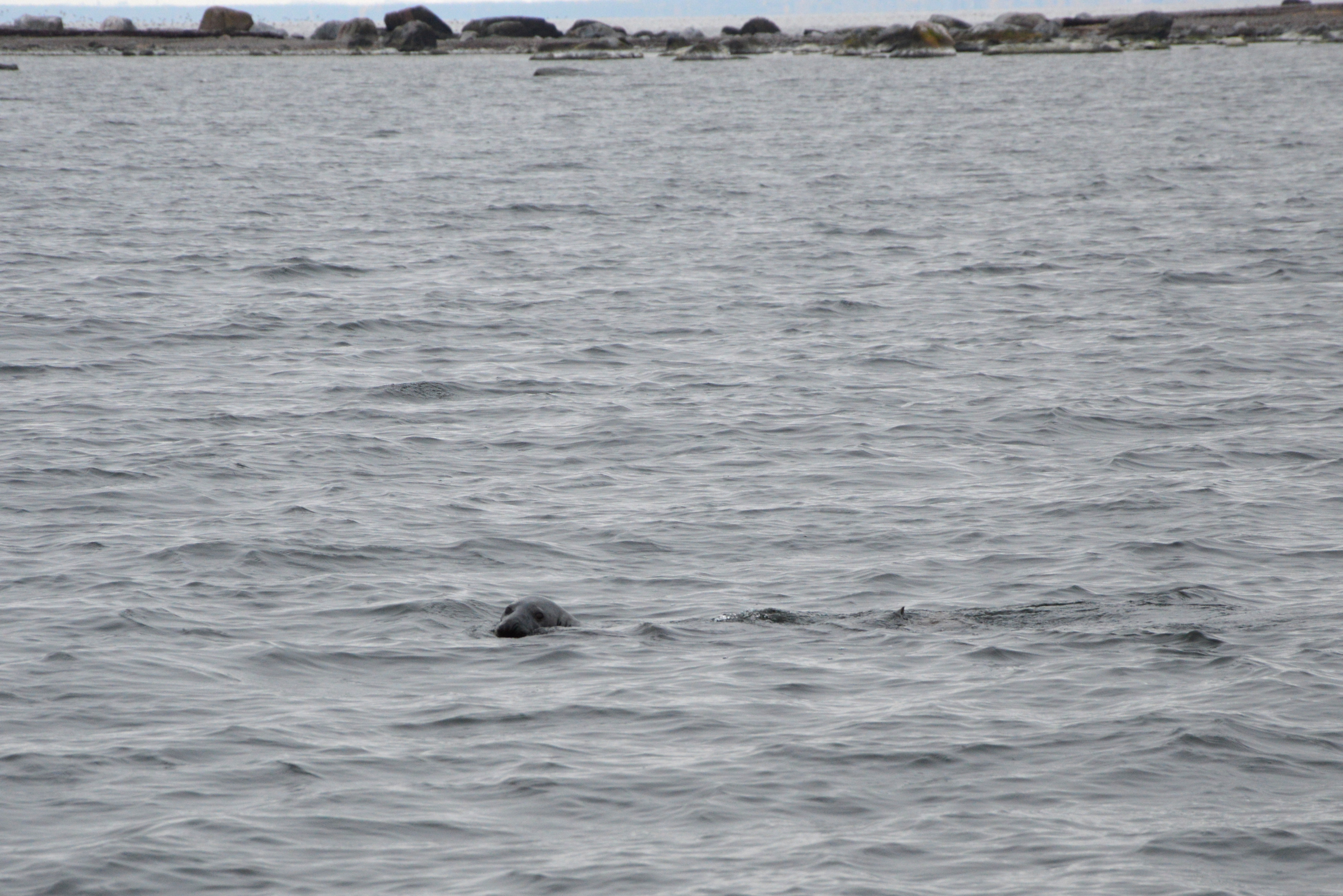 Halichoerus grypus next to Malusi islands, Estonia.